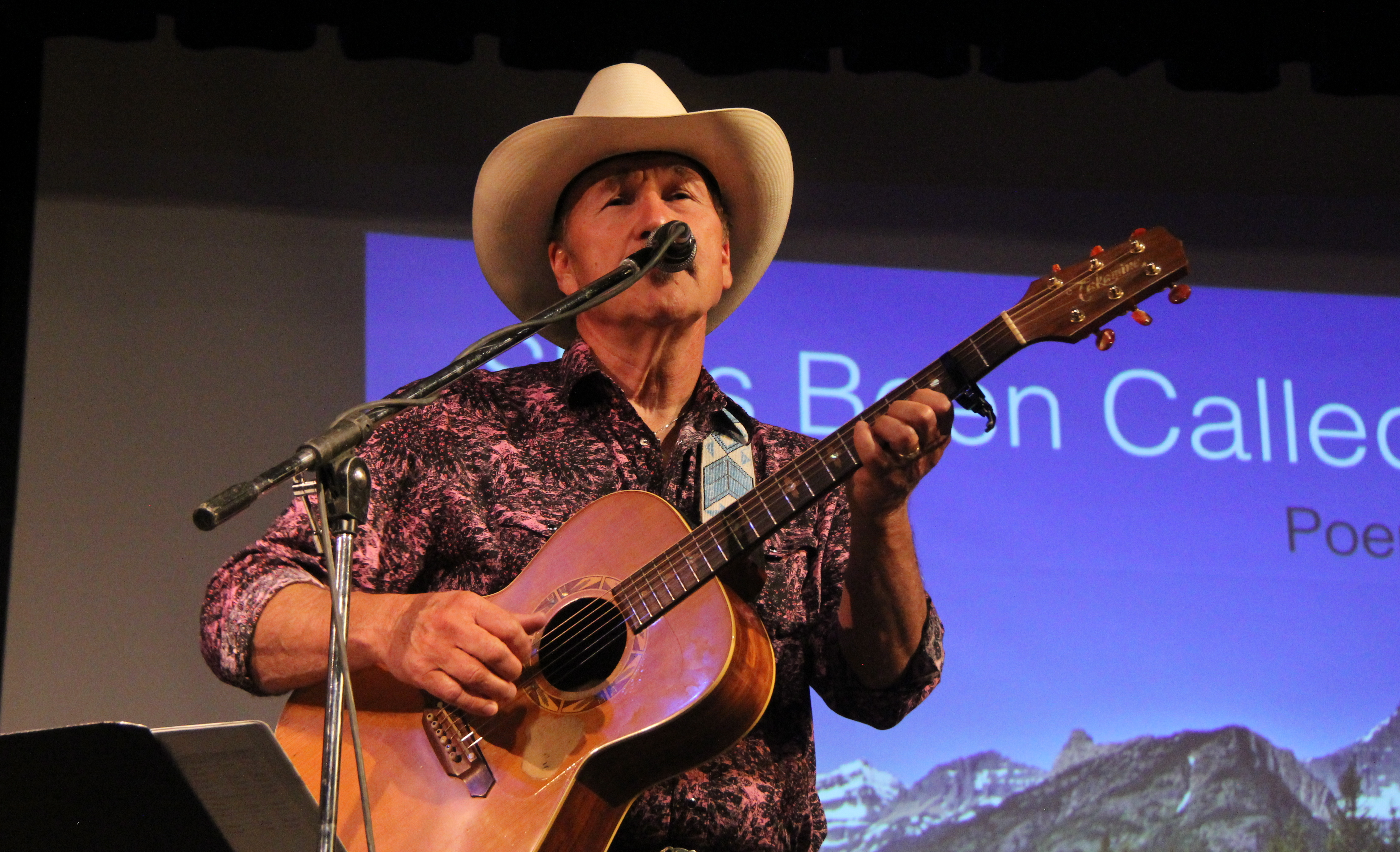 Rob Quist performs along with Jack Gladstone, Phil Aaberg and Friends perform at the University Theater in Great Falls in celebration of the 50th Anniversary of the Wilderness Act.